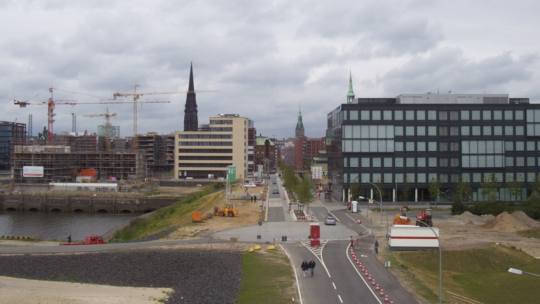 The photo shows the street "Großer Grasbrook" in the district "HafenCity" (port city) of Hamburg, Germany.